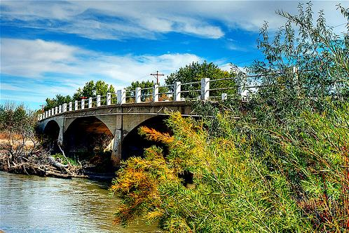 Bridgepixing the Avondale Bridge, a historic concrete arch bridge, built 1913, carrying County Road 327 over the Arkansas River, Pueblo County, Colorado. Listed on the National Register of Historic Places. Additional Bridge Photos and a Bridge Blog at This bridge was demolished and replaced in 2006. A picture of the bridge that replaced this one is here.